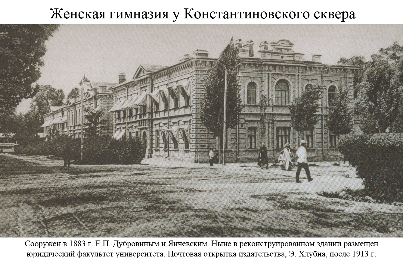 Women's High School in Constantine Square. Constructed in 1883 HE Dubrovin and Yanchevskii. Now, in a renovated building razme¬schen University Law School. Postcard publishers E. Hlubna after 1913